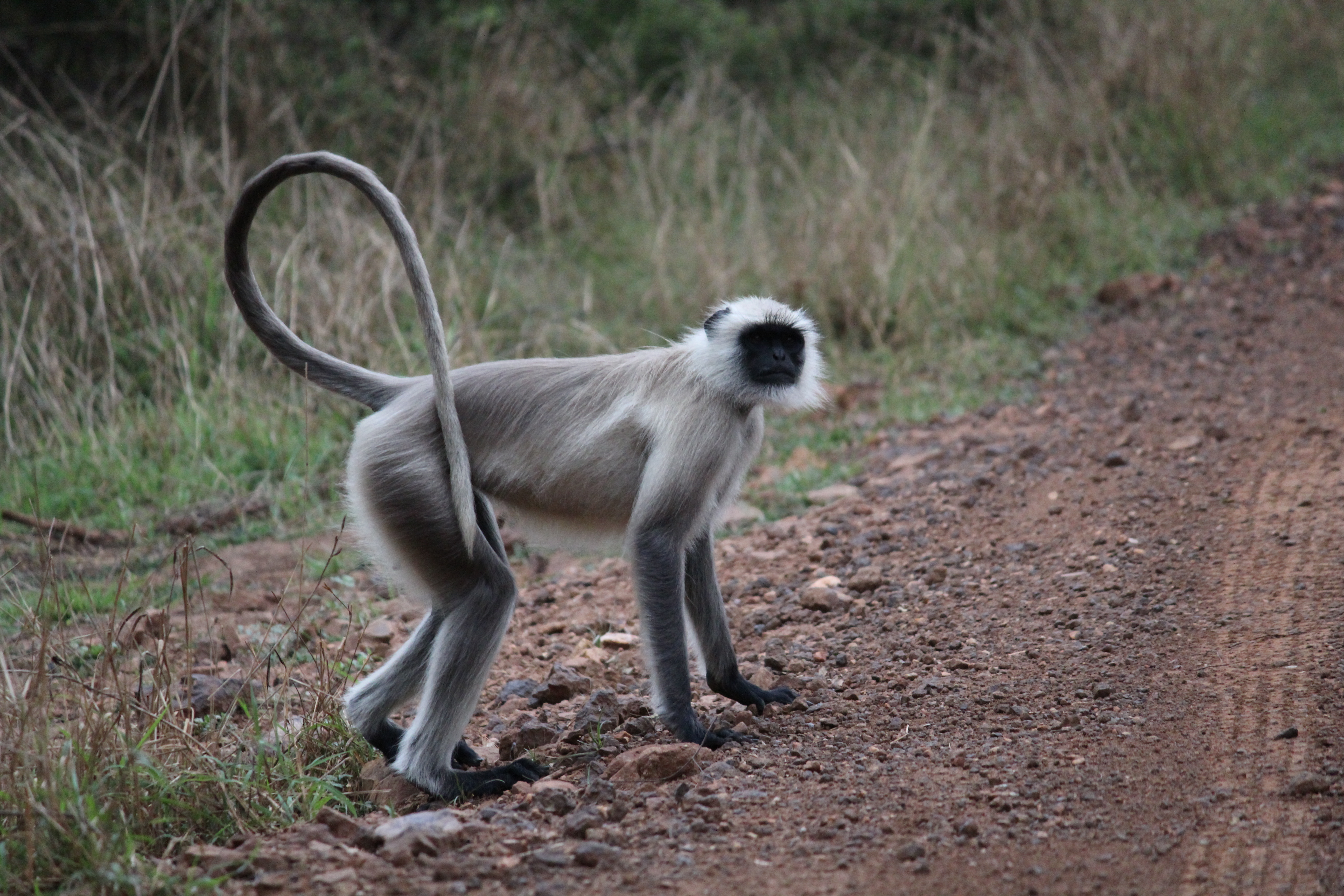 Gray Langur sensing threat, crossing paths with us in the forest of Sariska, Rajasthan